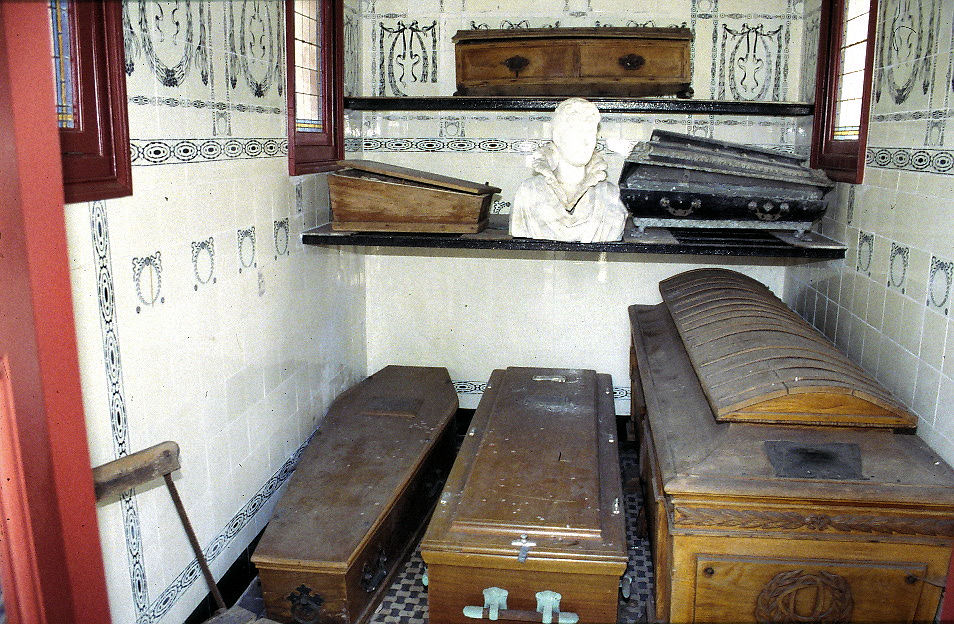 Inside mausoleum of Oscar Carre